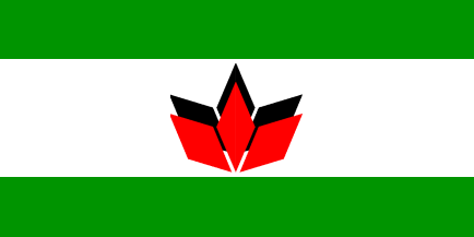 Flag of the Democratic Union of the Hungarians in Romania.